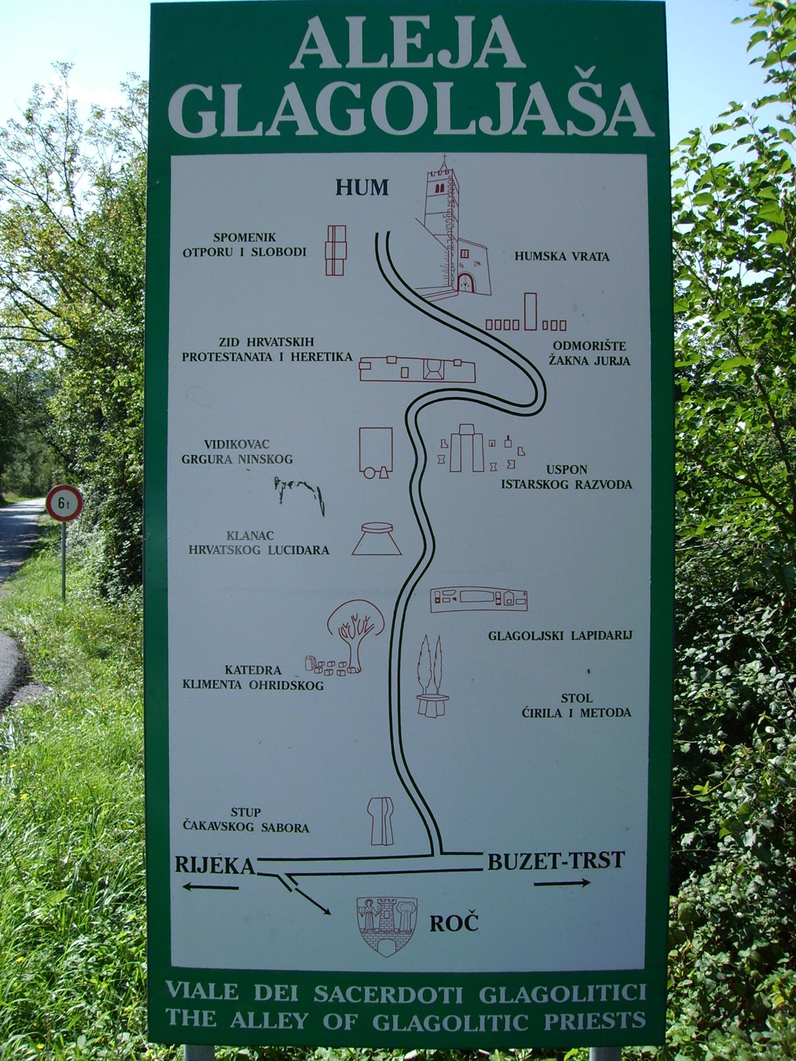 Sign at the Glagolitic Avenue near Hum, Croatia